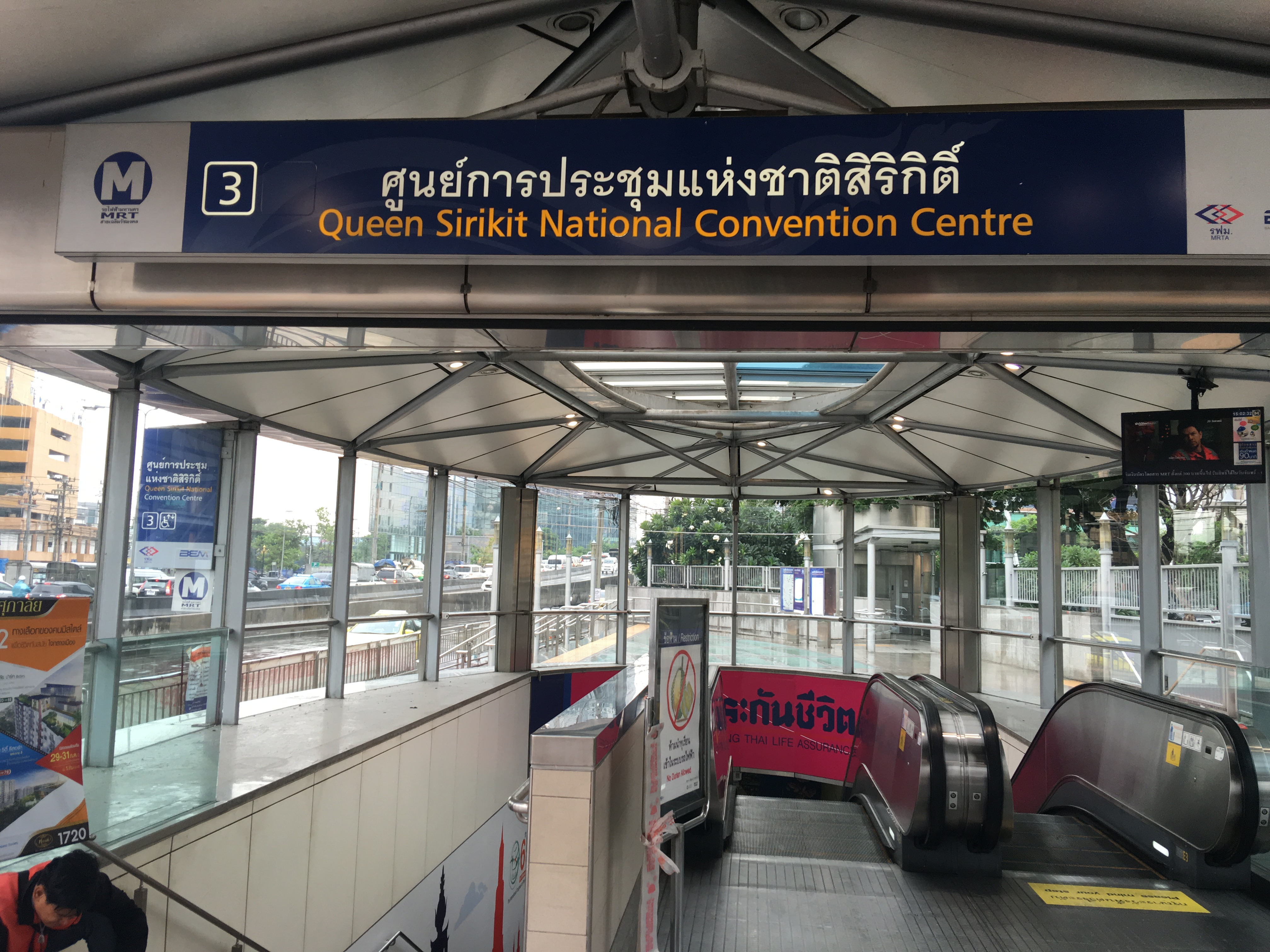 The entrance of Queen Sirikit Centre Station